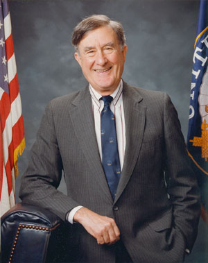 Senator John Chafee.